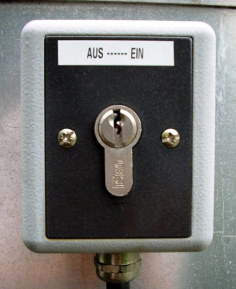 Key Switch